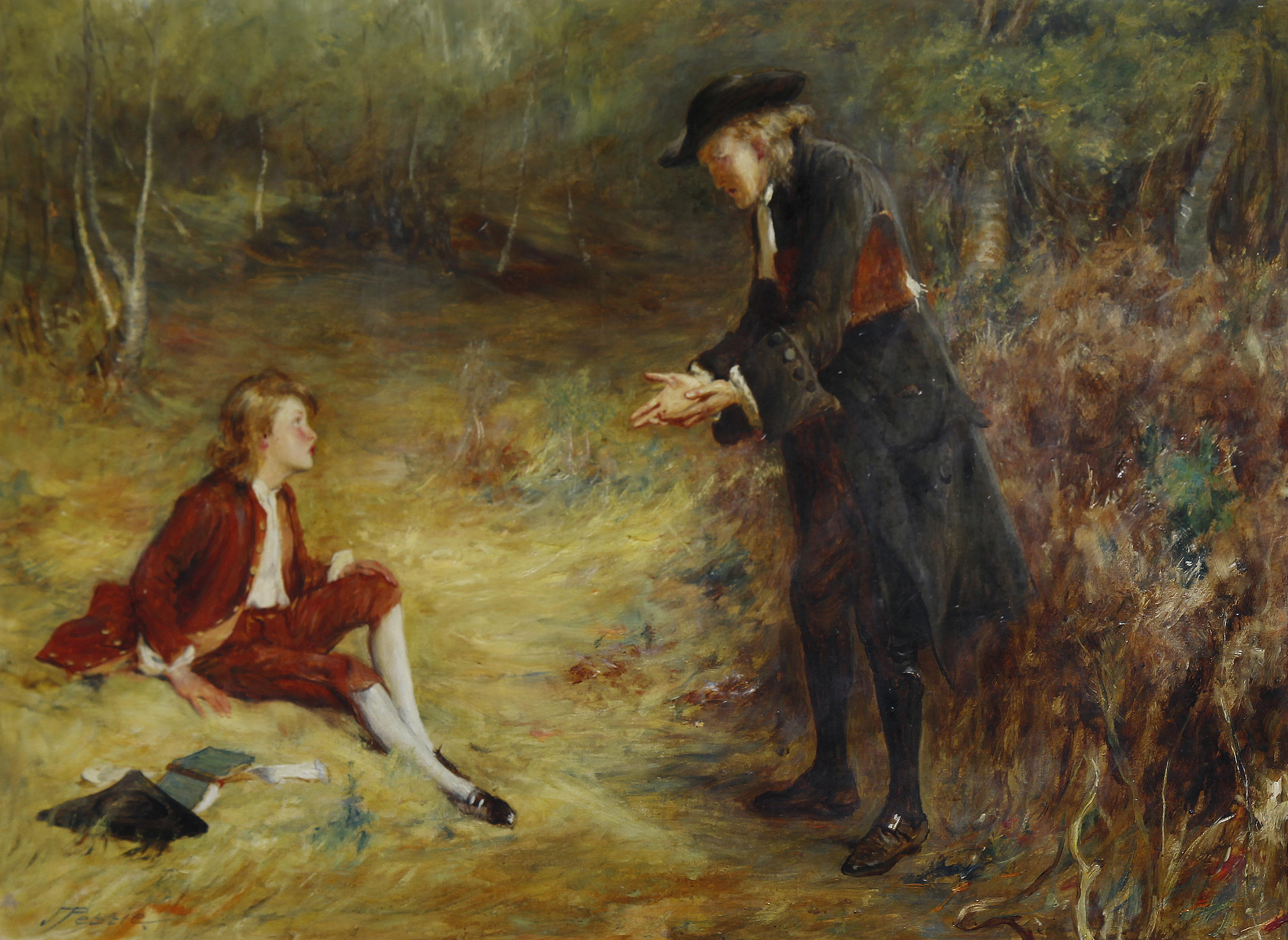 A roadside sermon, oil on canvas, 45 x 63 cm.